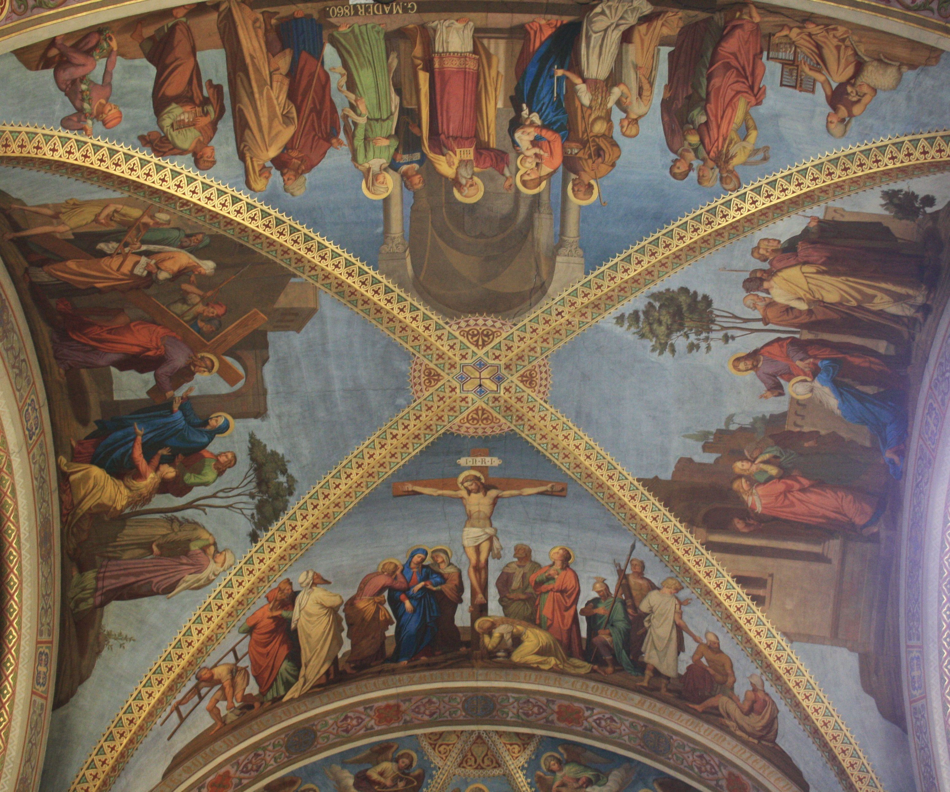 Italy, South Tyrol, Bruneck, Maria Himmelfahrt. The church was built in 1853 on plans of Hermann von Bergmann in neoromanesque. The church has a nave with painting representing the life of Christ by Georg Mader and Franz Hellweger.